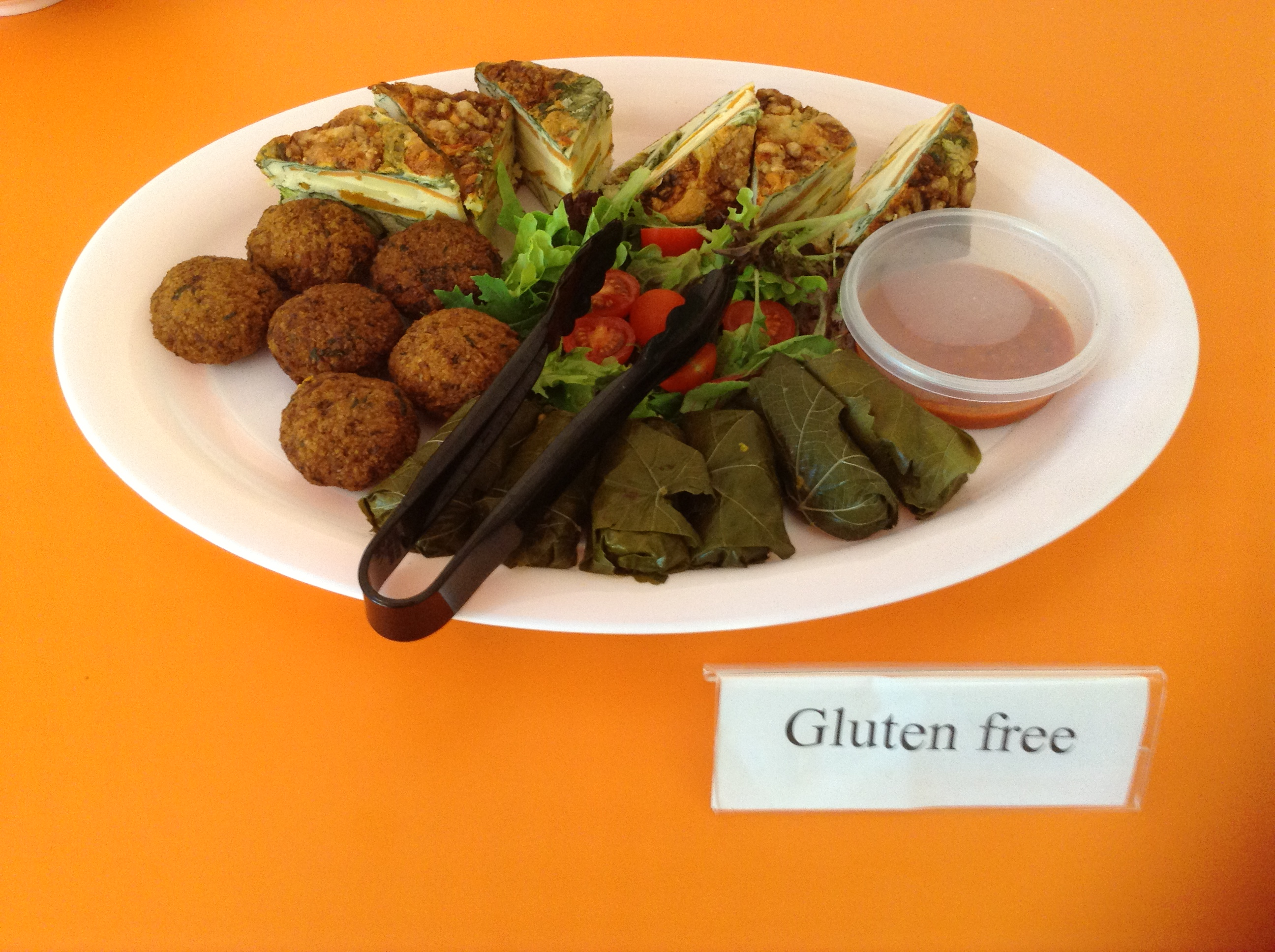 Gluten-free Mediterranean lunch platter